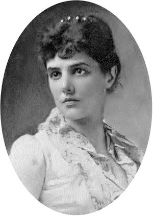 photograph of Lady Randolph Churchill as young woman